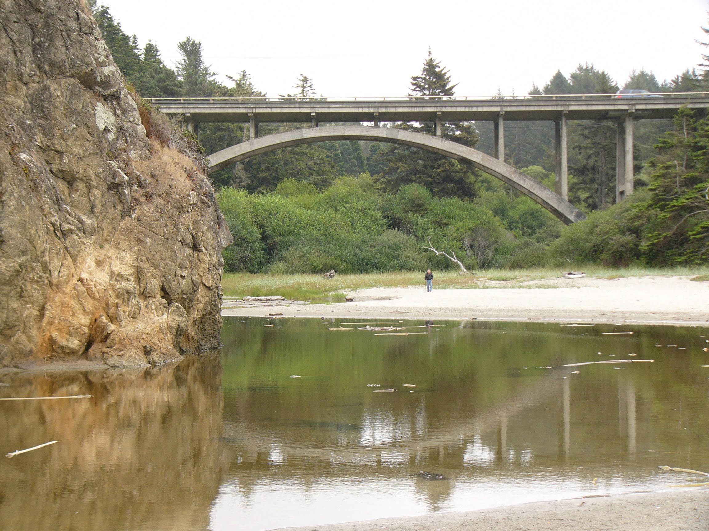 Jug Handle Creek Bridge, Jug Handle State Natural Reserve, Mendocino County, California, USA